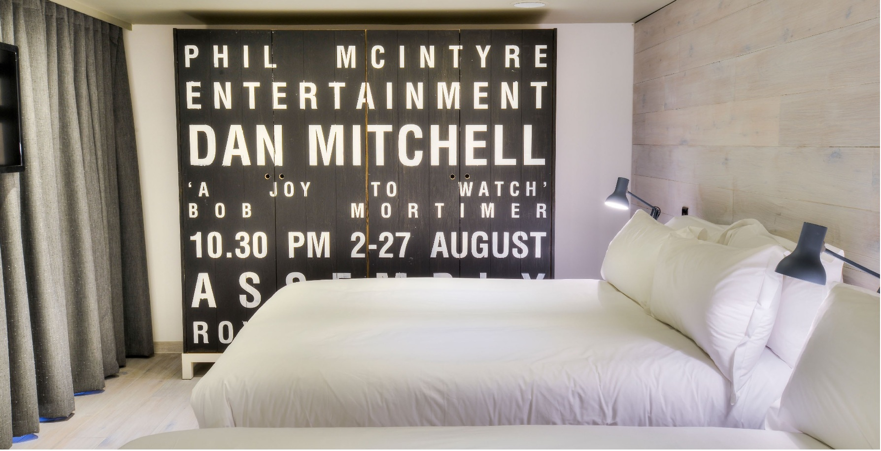 STAY Central Hotel M Room (Double or Twin Room)